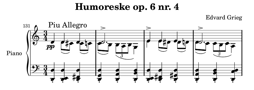 Grieg's Humoreske op. 6 no. 4 bar 131 to 134 Created by Lilypond 2.13.21